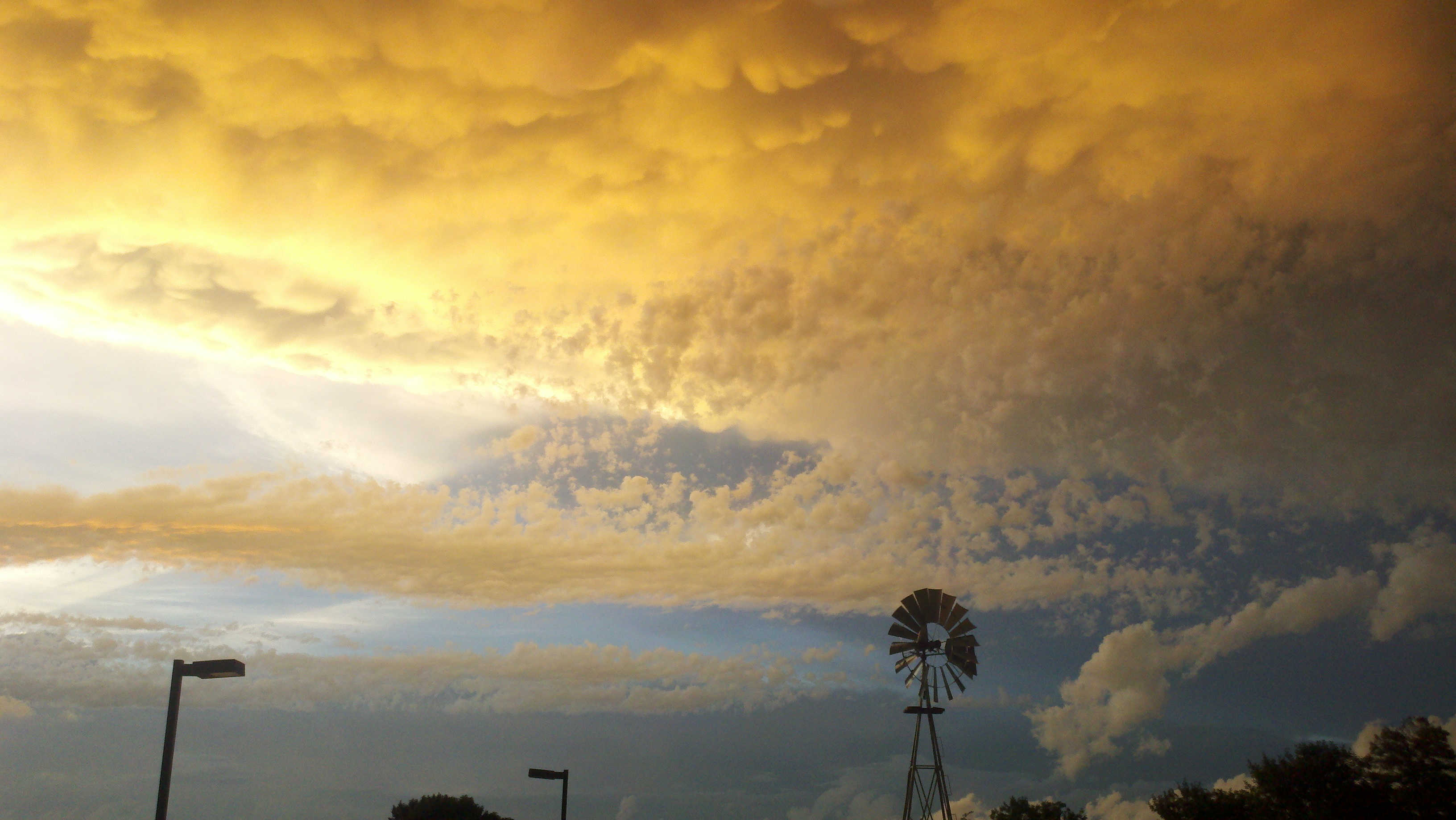 The sky as it appeared in Lincoln, Nebraska on the evening of August 6th, 2011. Colors are unaltered. This picture was taken with a Motorola Droid X cell phone. Series of 9.